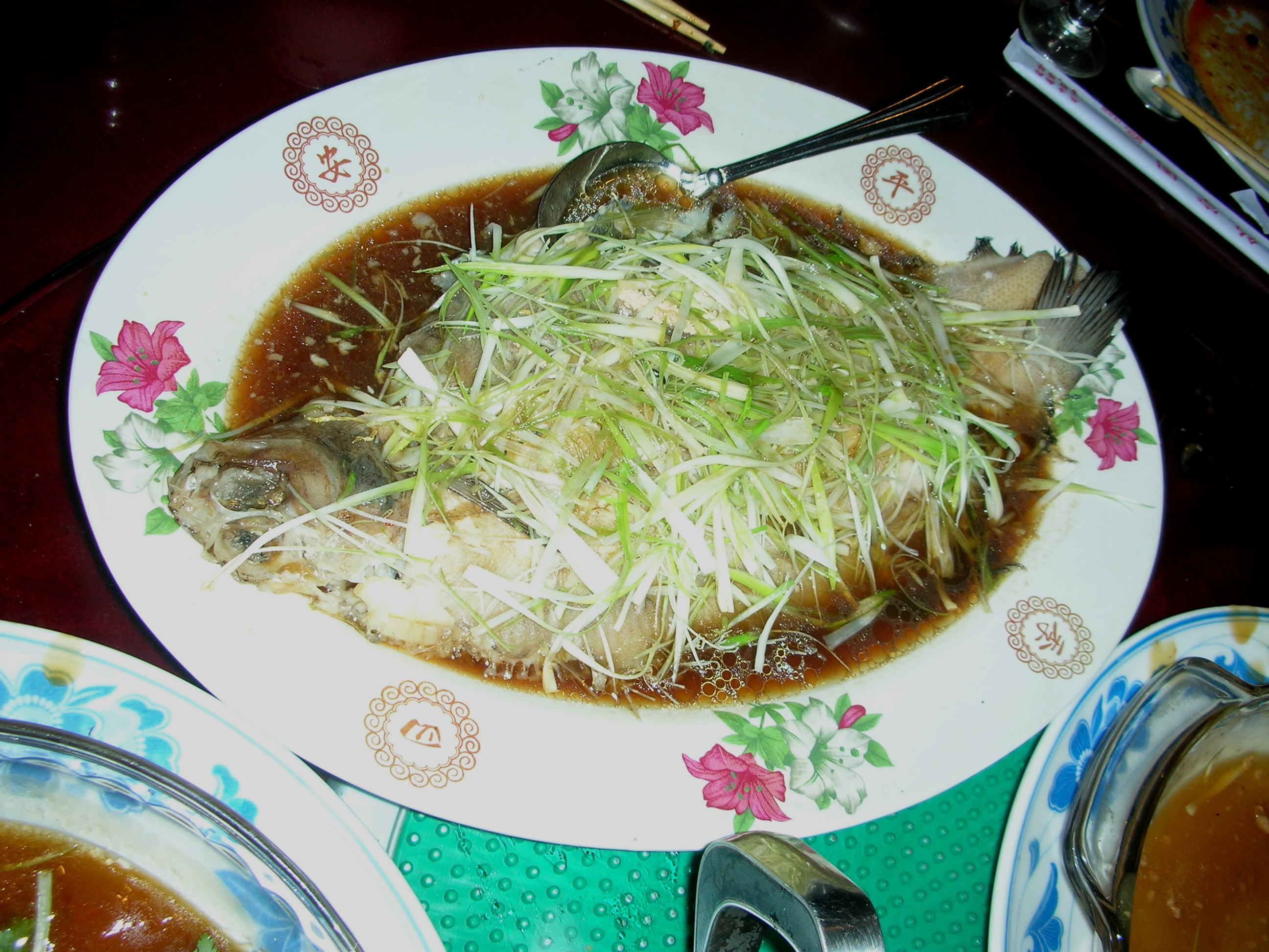 Steamed whole perch fish with roe inside.